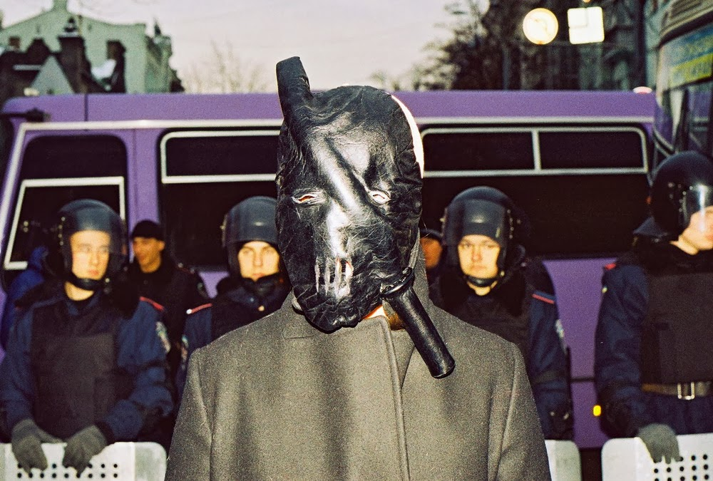 Ukrainian journalist (Mask of Maidan) by Bob Basset (2013)